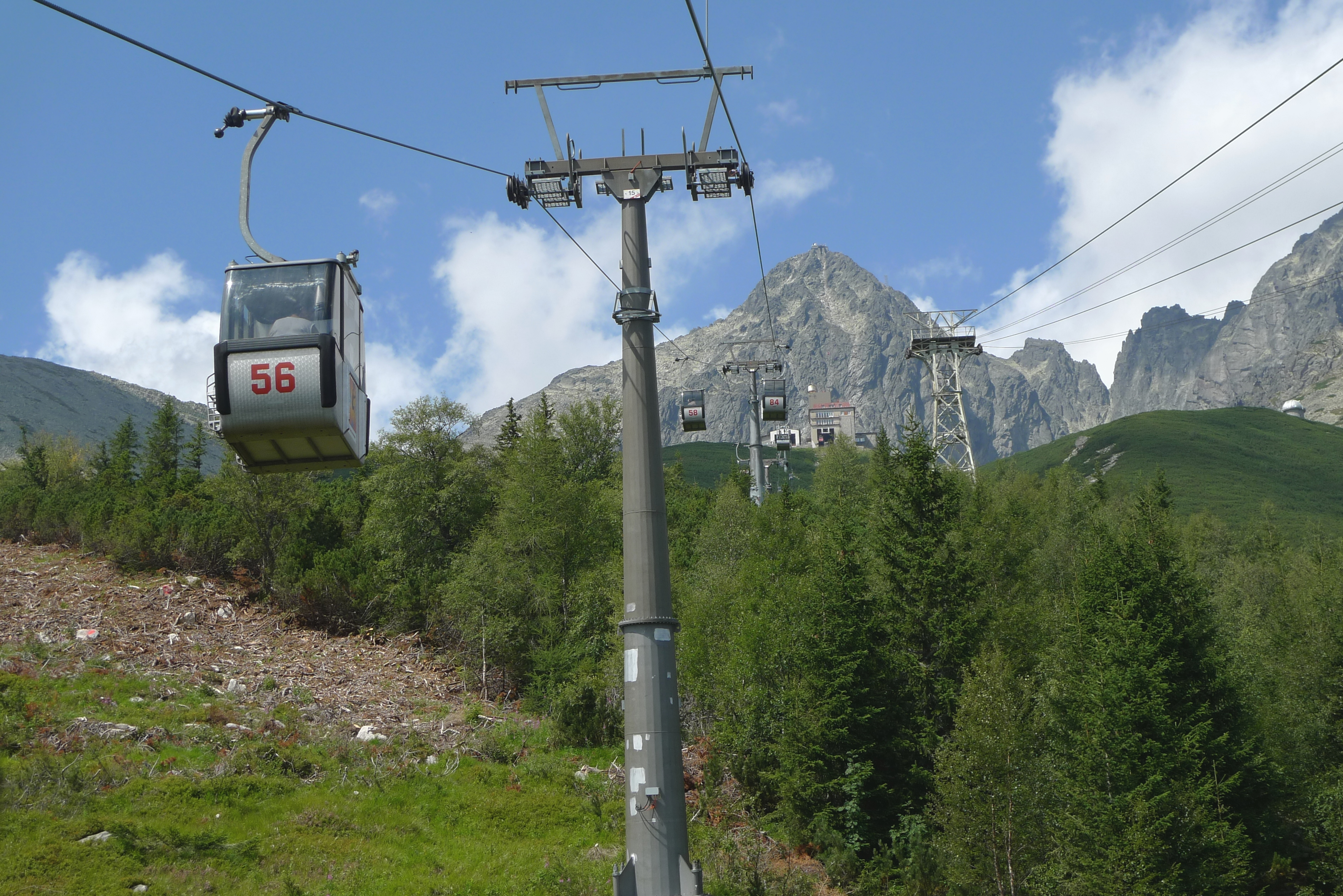 Gondola lift Tatranská Lomnica–Skalnaté pleso. Česky: Oběžná kabinková lanovka v úseku Tatranská Lomnica–Skalnaté pleso.